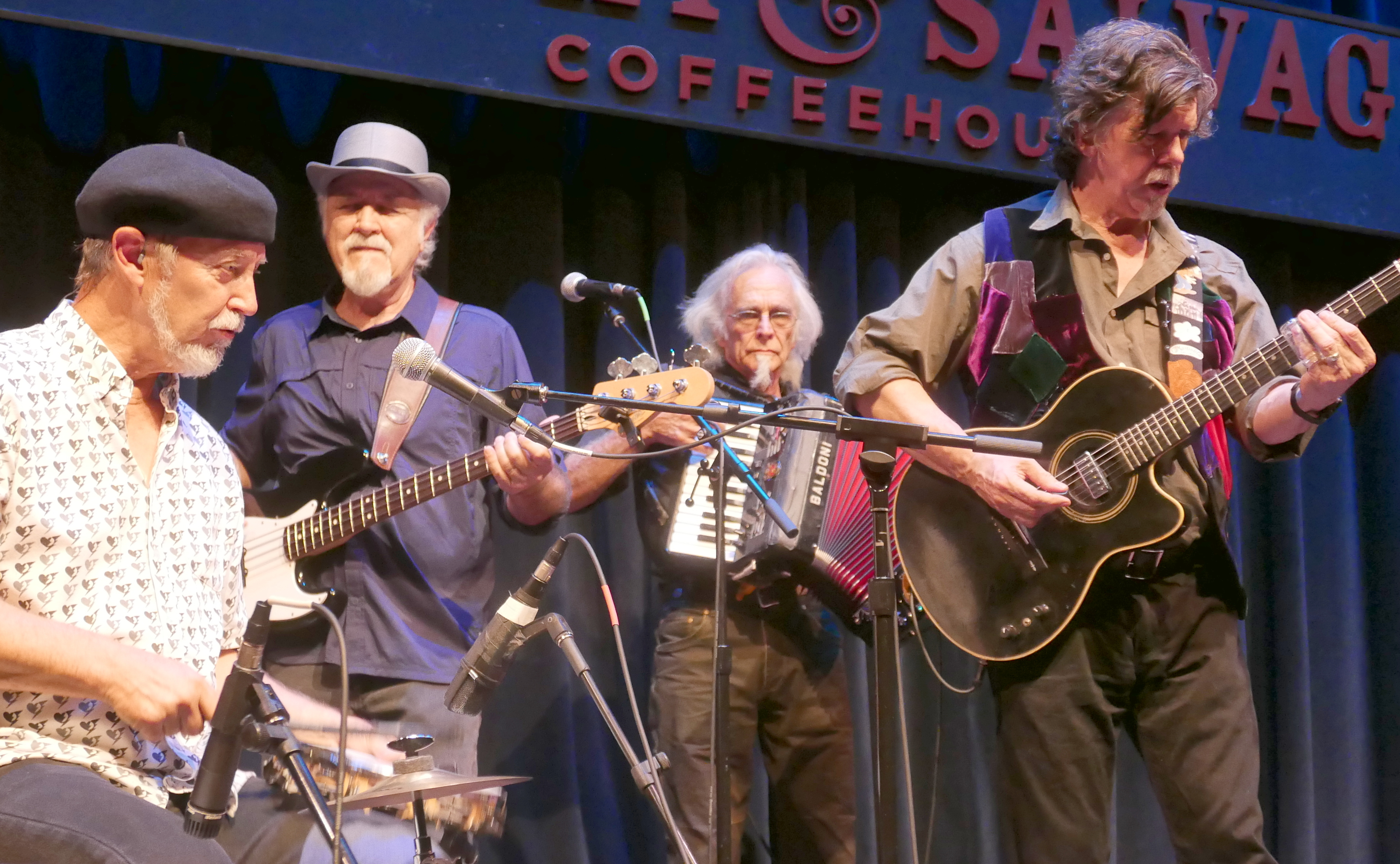 The Subdudes, performing at The Freight & Salvage in Berkeley, CA on 2017-08-04.